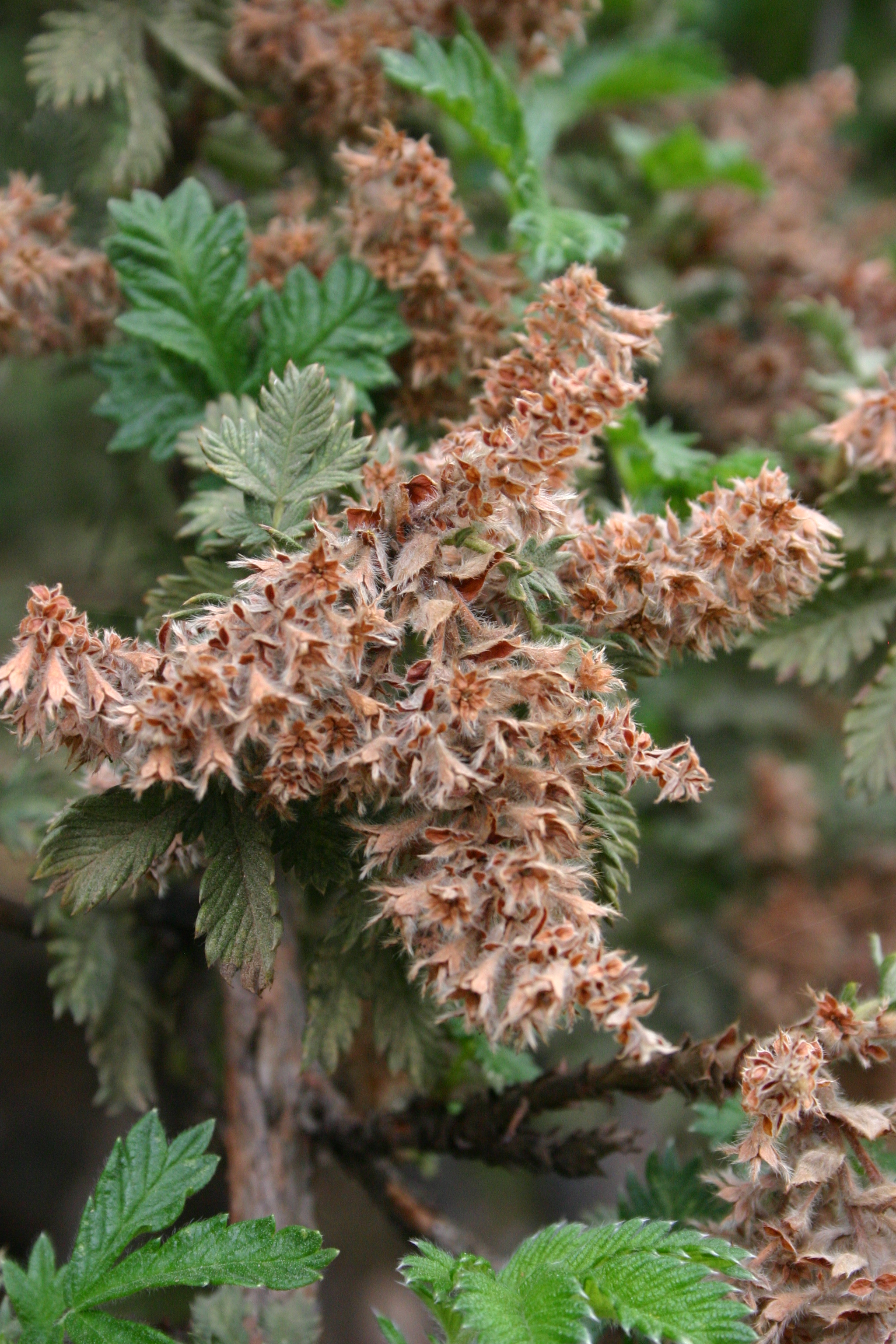 Leaves and flower bracts, Gauteng garden